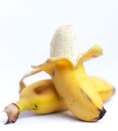 Banana